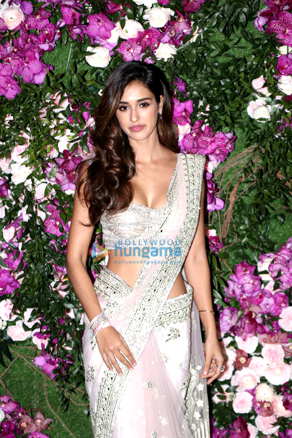 Disha Patani grace the wedding of Akash Ambani and Shloka Mehta